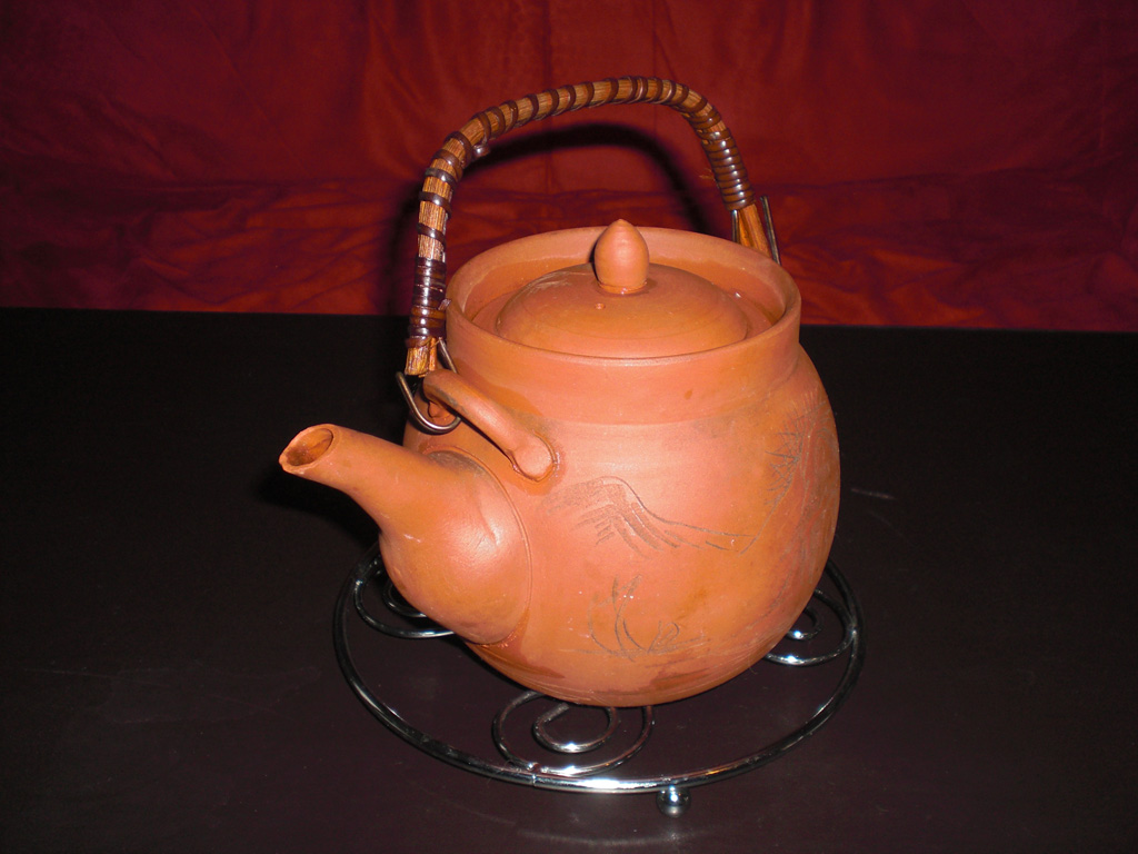 teapot terre